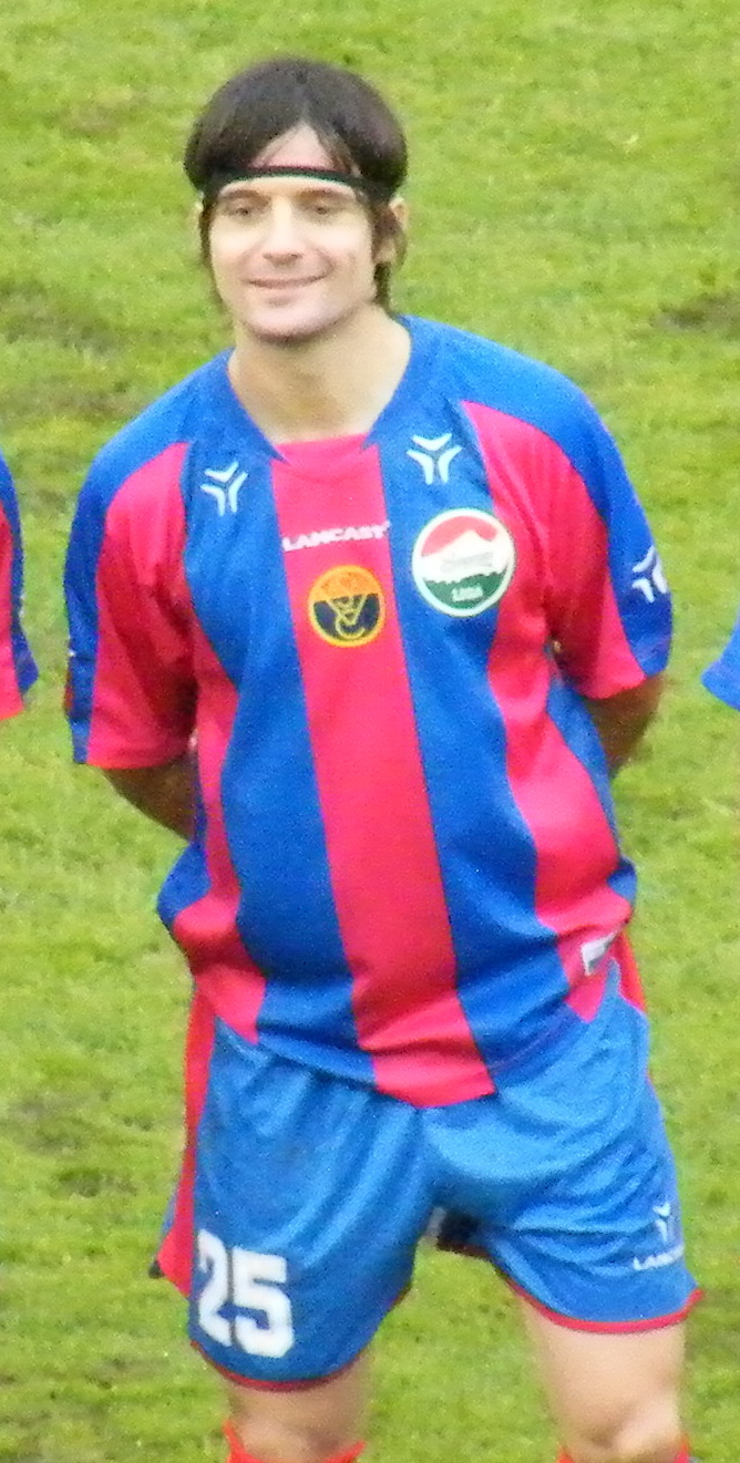 Saša Dobrić Serbian football player